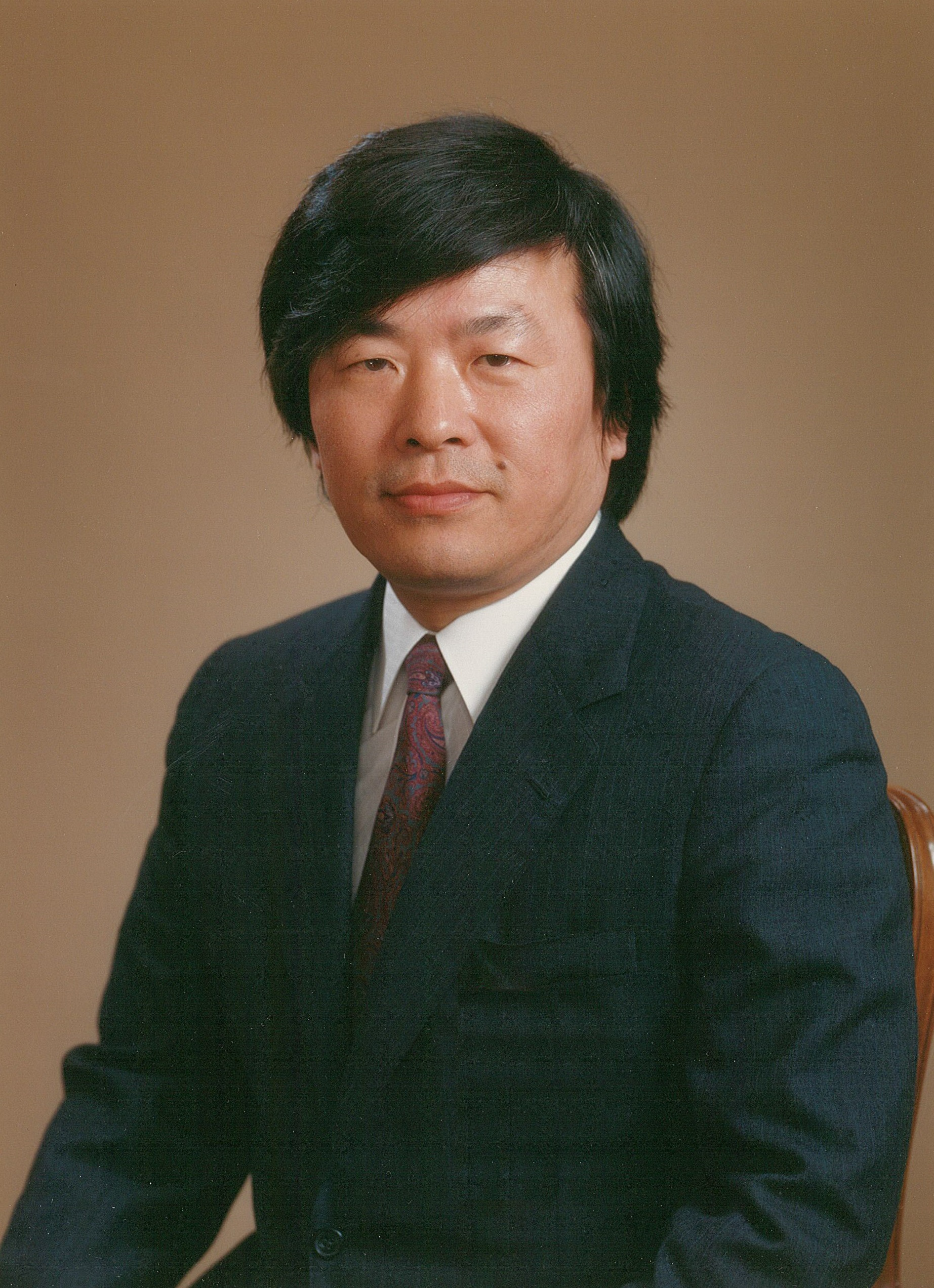 ST